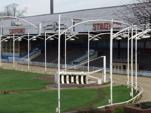 Catford Dog Track Disused and decaying dog track taken through the locked gates before its eventual demolition.